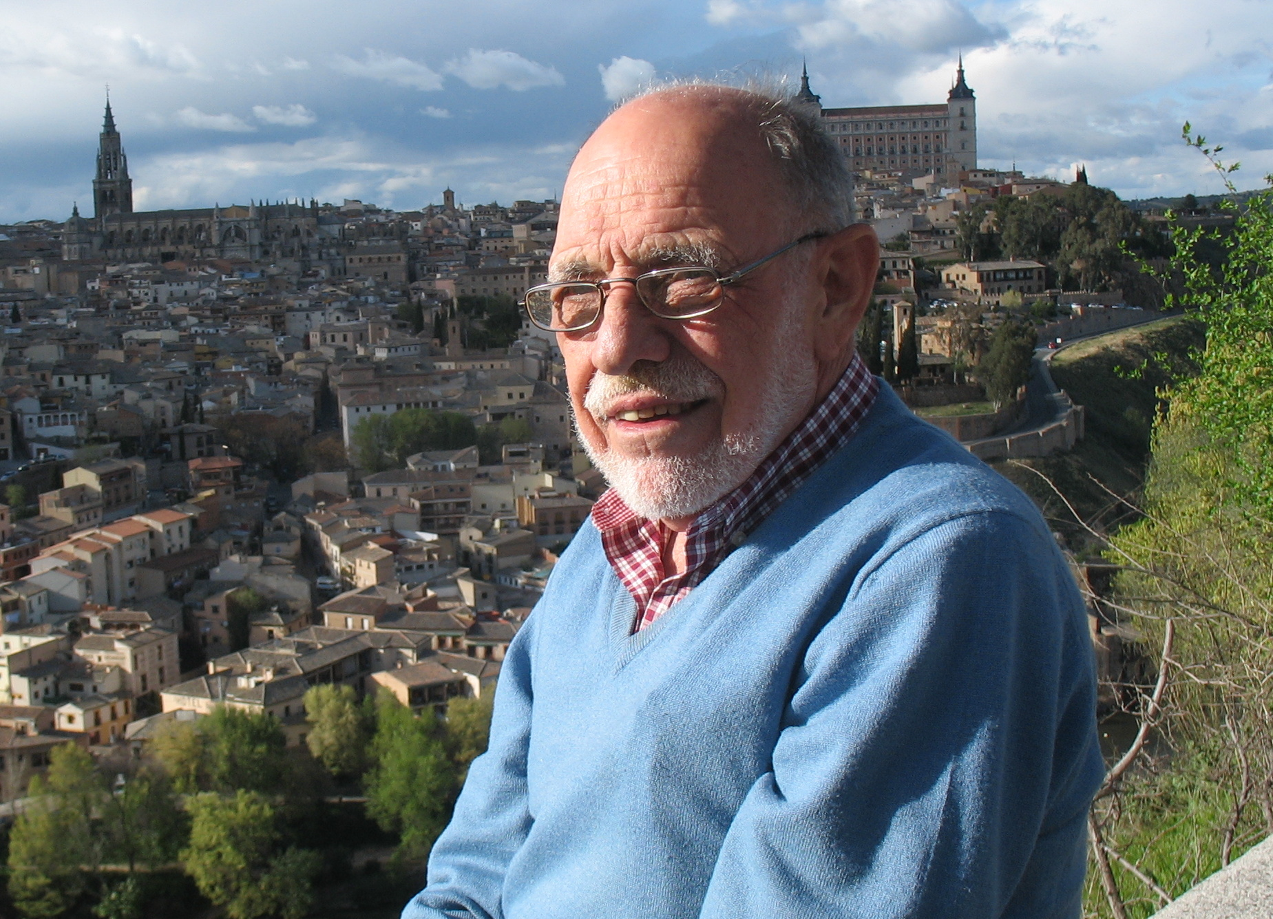 Matthijs ("Thijs") Freudenthal (1937-), Dutch paleontologist. Picture in Toledo, Spain, April 2014